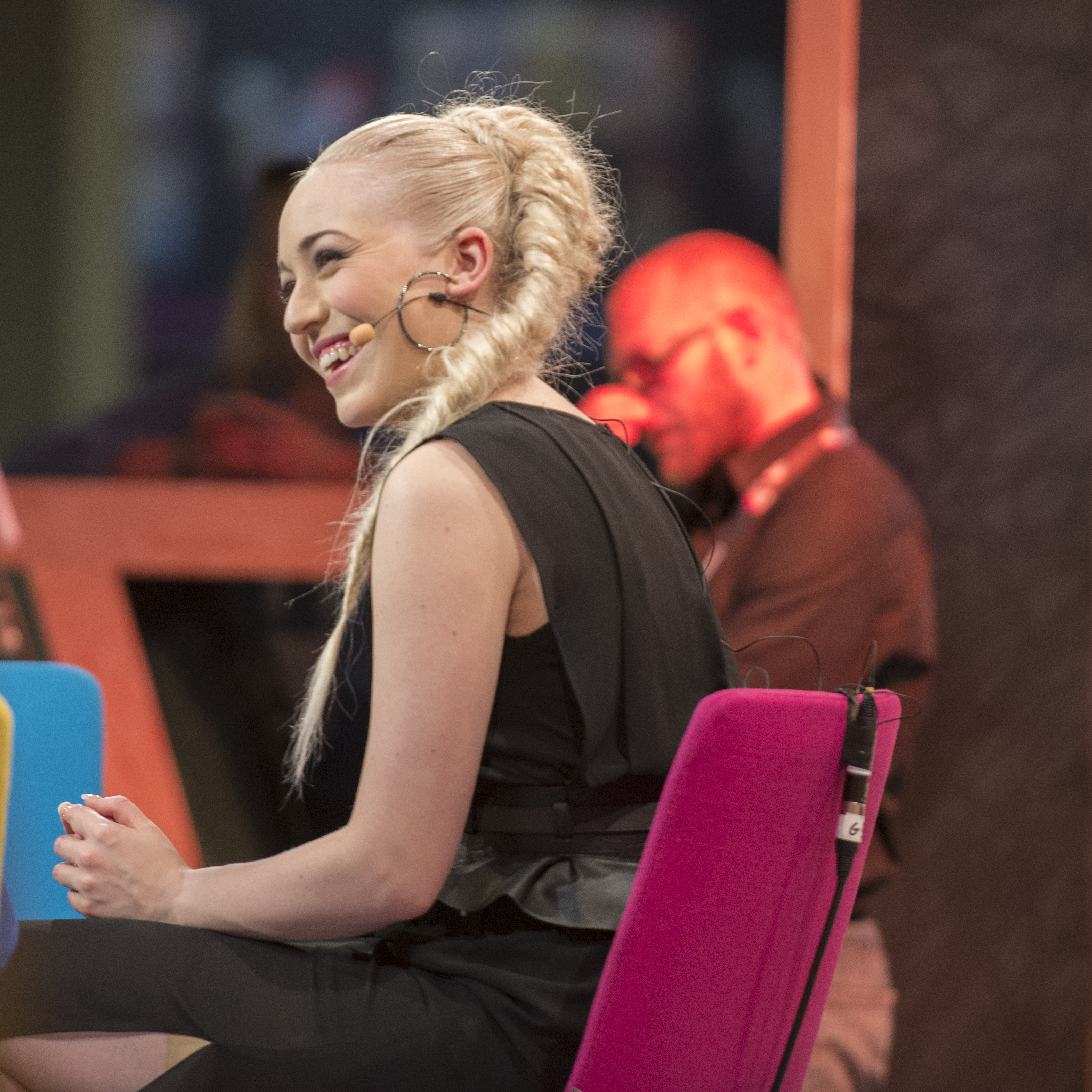 Margaret Berger is interviewed by Gina Dirawi in the Swedish TV-show Studio Eurovision 2013.